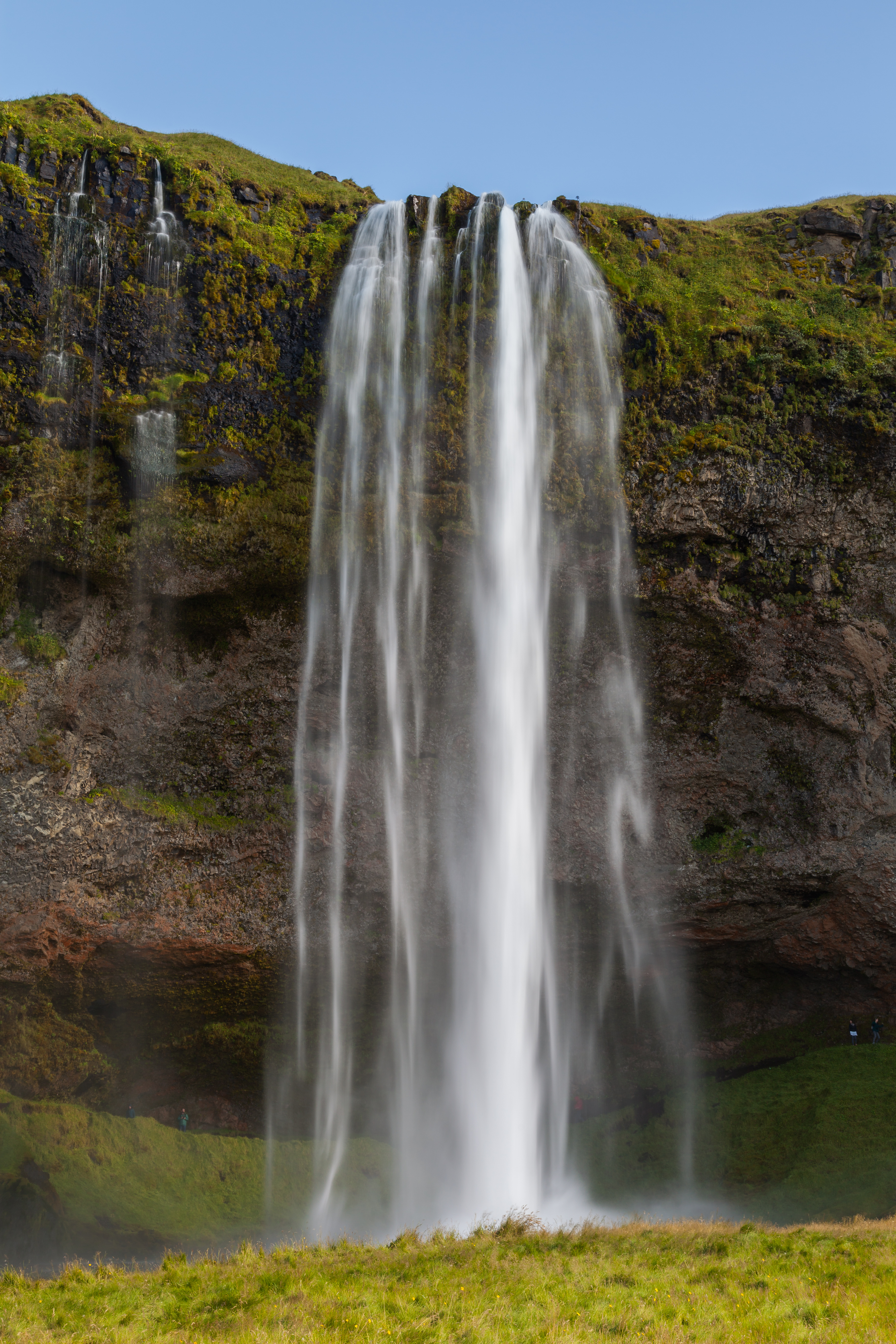 Seljalandsfoss, Suðurland, Iceland